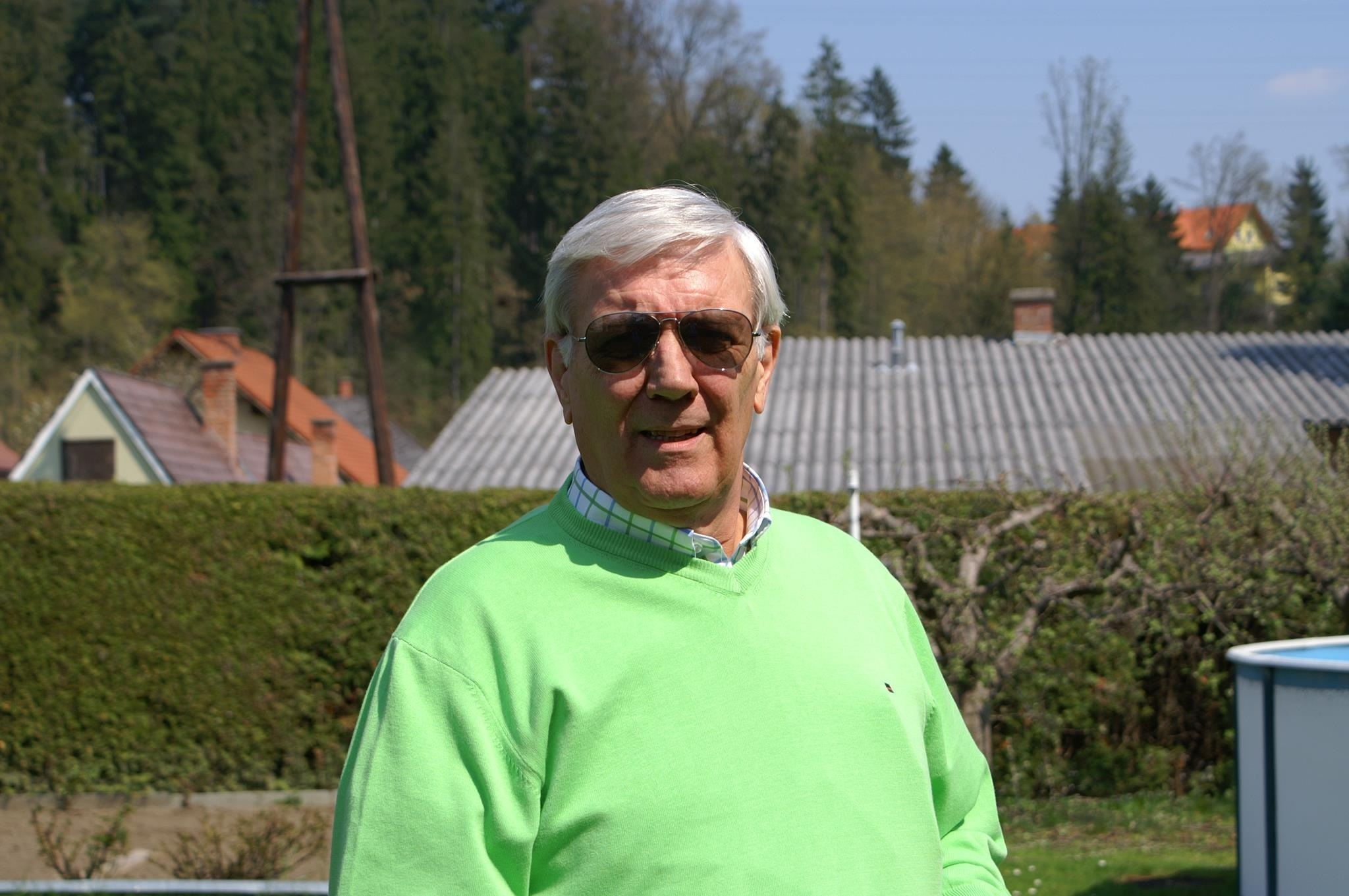 Portrait